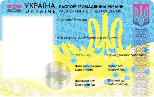 This version was published in